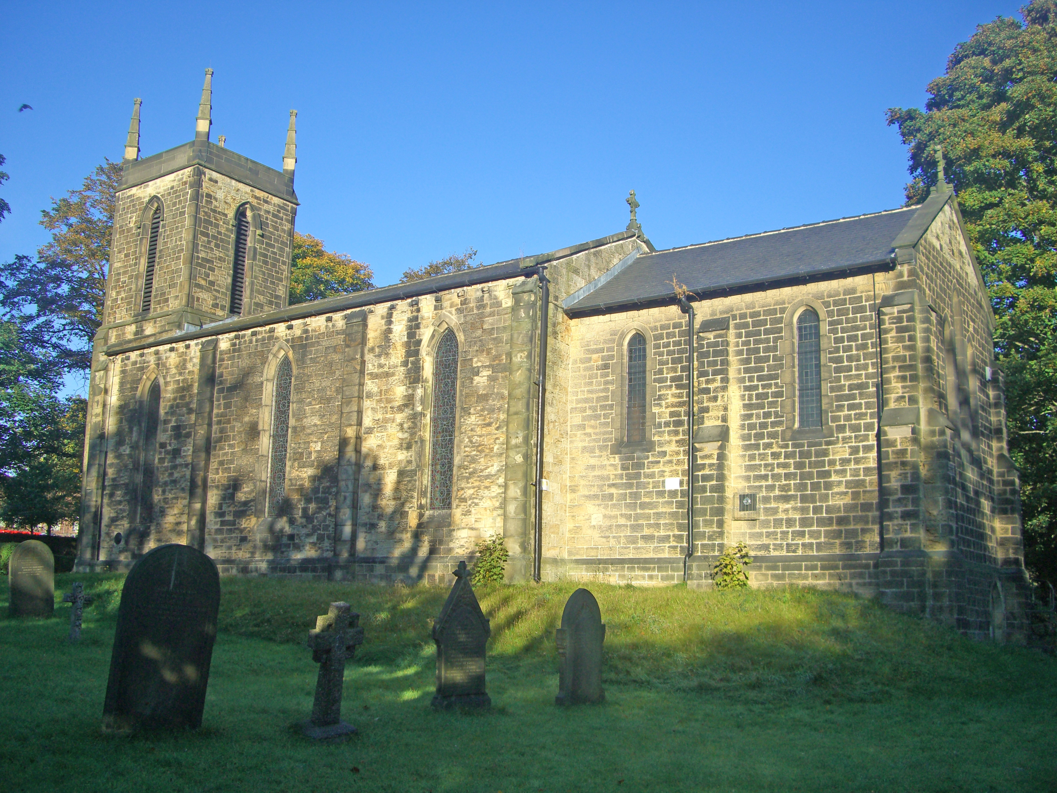 Christ Church parish church, Hollinsend Road, Gleadless, Sheffield, South Yorkshire, seen from the southeast